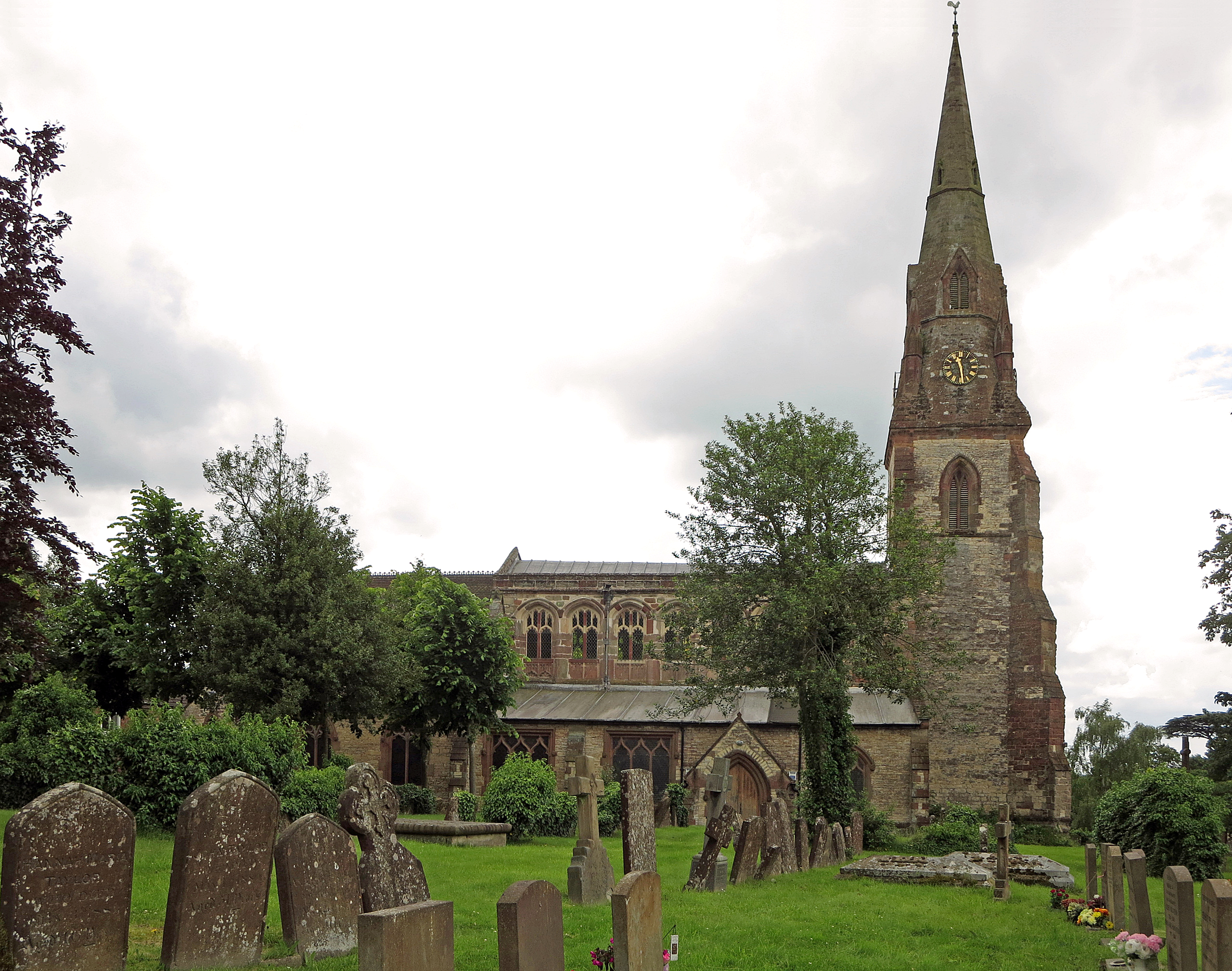 St James' parish church, Southam